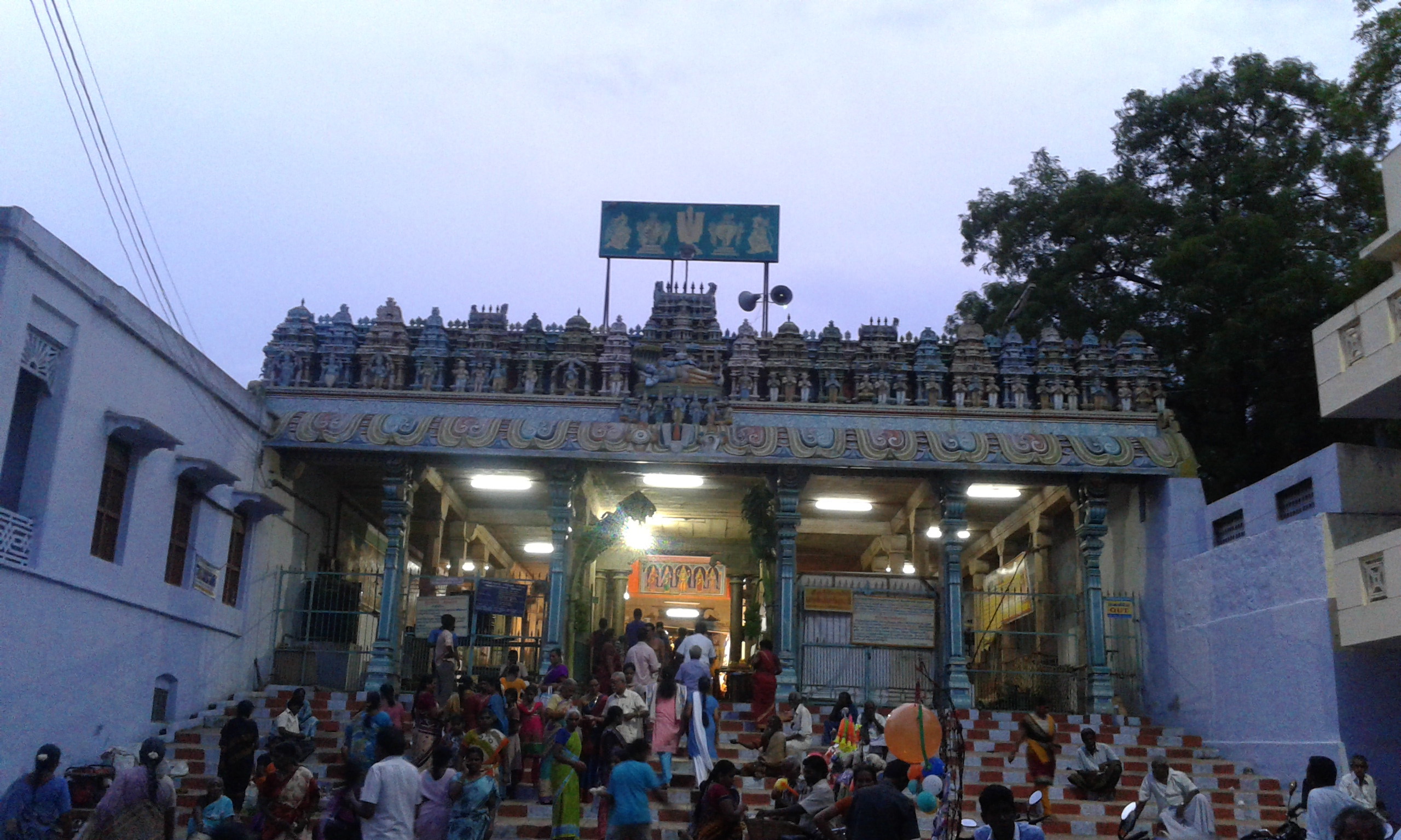 Thiruthankal